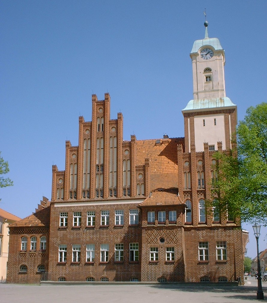 Town hall in Wittstock in Brandenburg, Germany